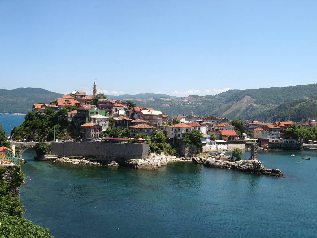 Amasra (pop. 7000; anciently called Amastris, Αμαστρις in Greek) is a small Black Sea port town in the Bartın Province, Turkey.